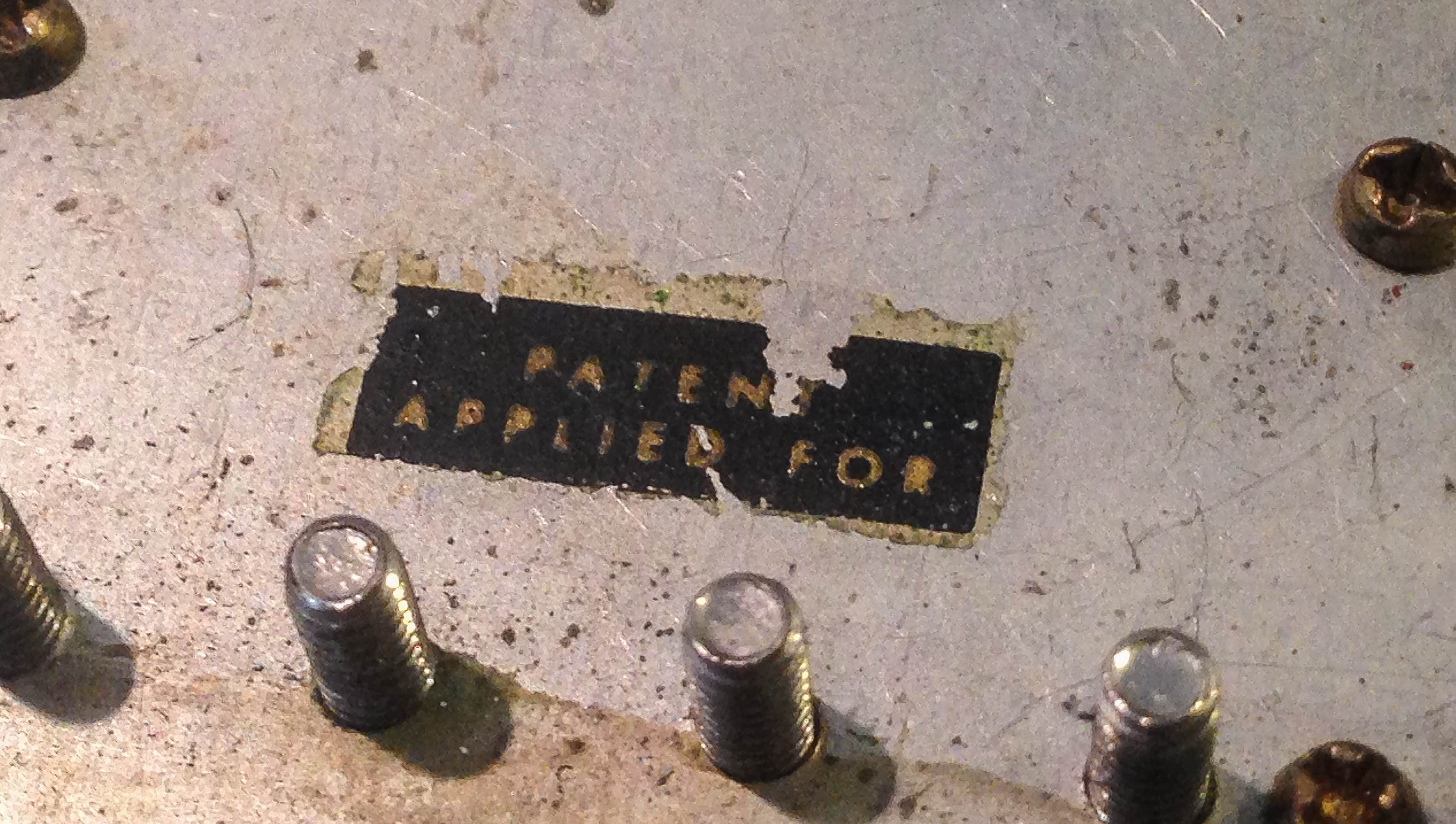 From an original PAF double-black humbucker.